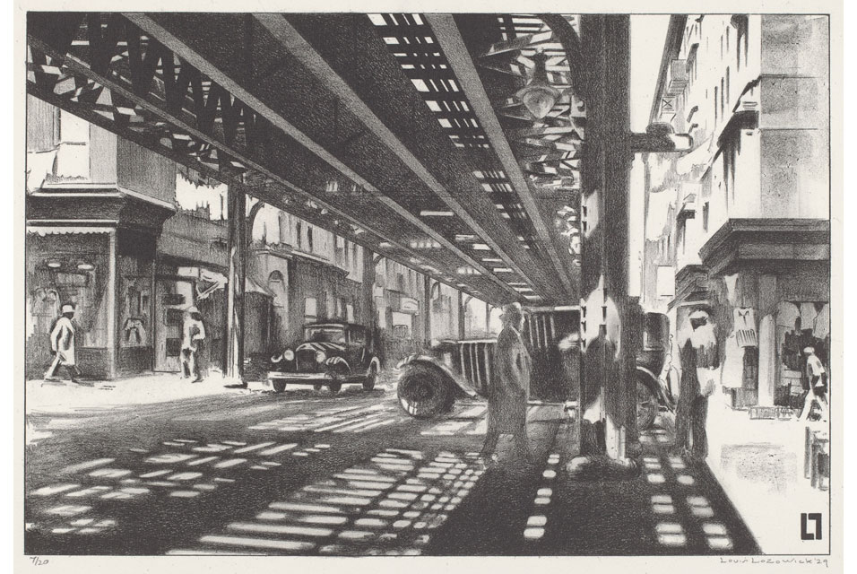 Allen Street by Louis Lozowick, 1929, lithograph, image 19.1 x 28.5 cm (7 1/2 x 11 1/4 in.), sheet 28.2 x 40 cm (11 1/8 x 15 3/4 in.), National Gallery of Art, Washington